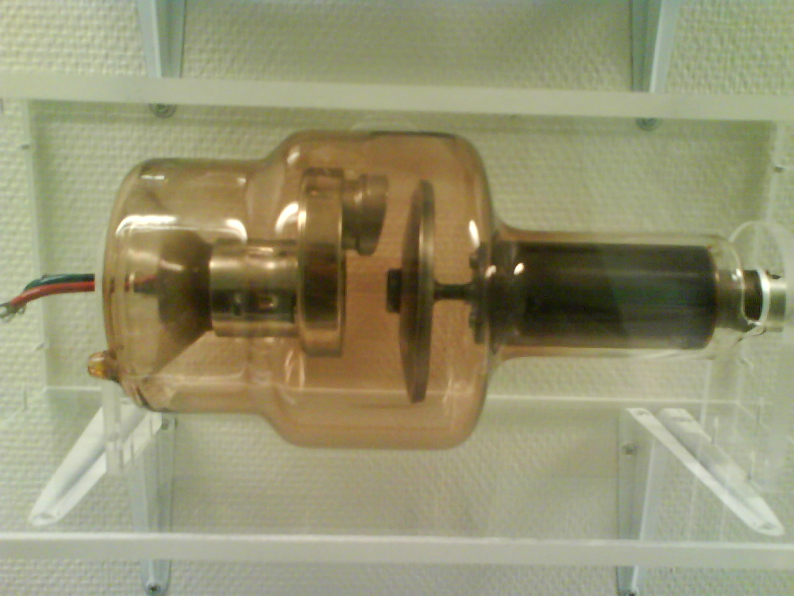 From Tromsø hospital.